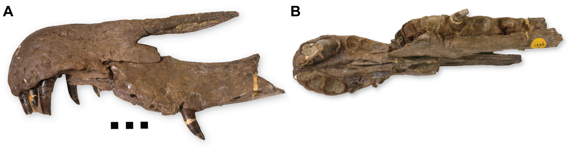 Lateral and ventral views of Baryonyx walkeri rostrum (NHMUK VP R9951). Scale bar = 5 cm.